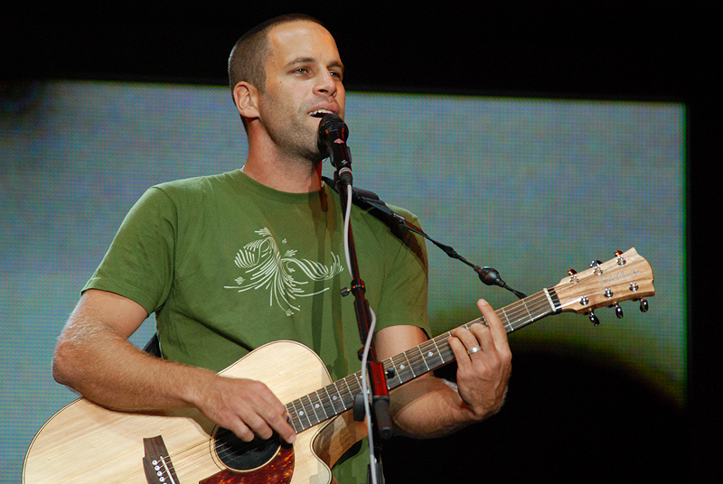 Jack Johnson performing at the 2008 Bonnaroo Music Festival in Manchester, TN